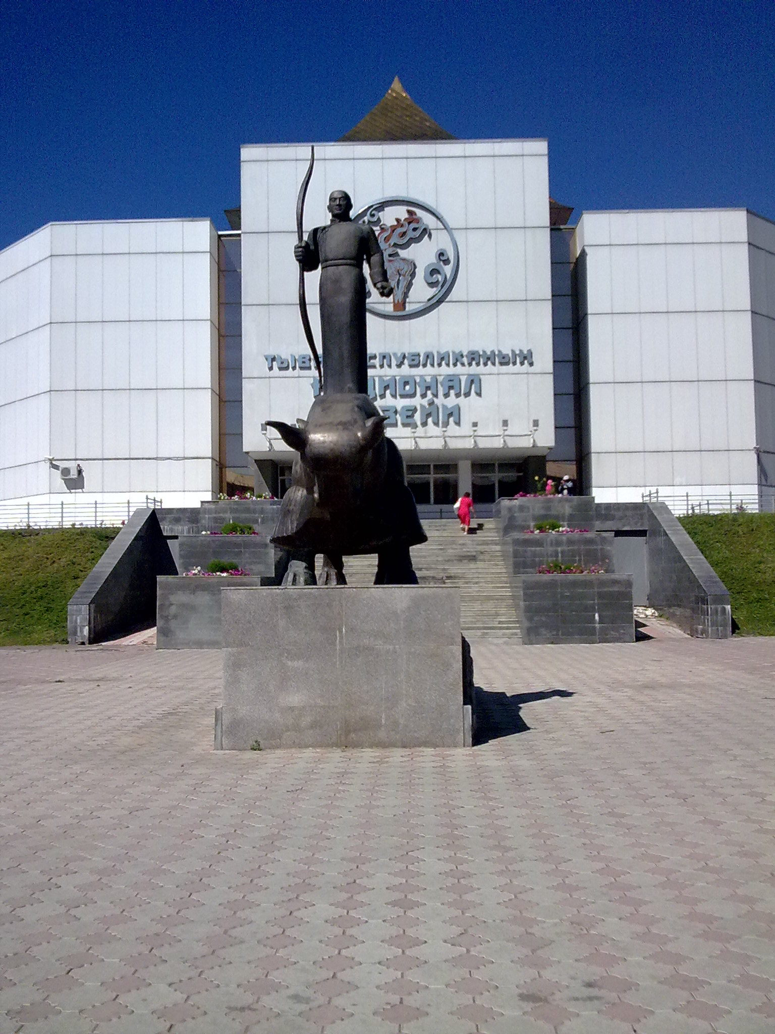 National Museum of the Aldan-Maadyr republic of Tuva